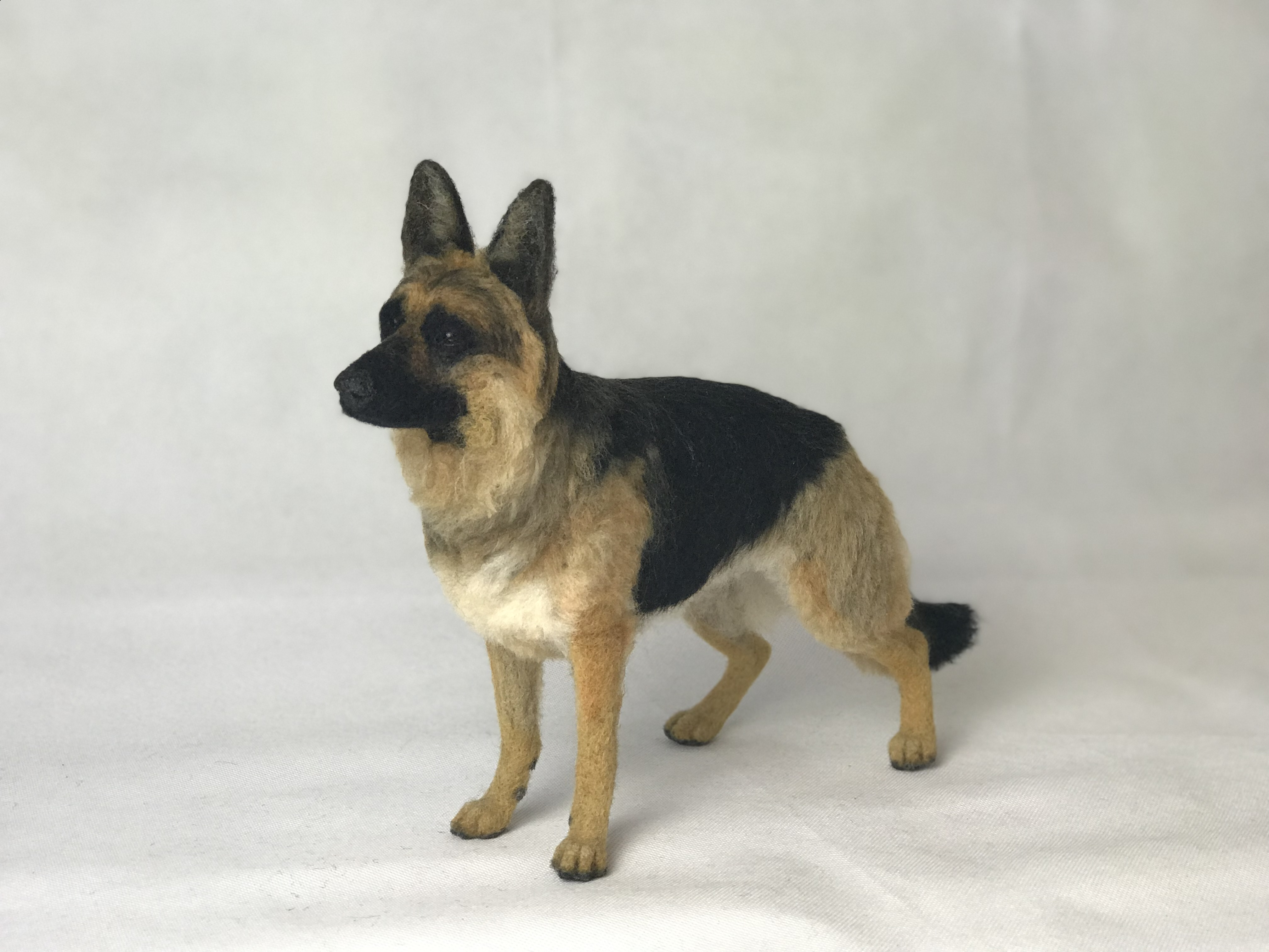 A needle felted body over a wire armature with a complex hand-blended coat of Merino wool. This type of needle felting takes many hours of work and planning. It includes 4 colours of wool blended to create over 10 different/varying shades.